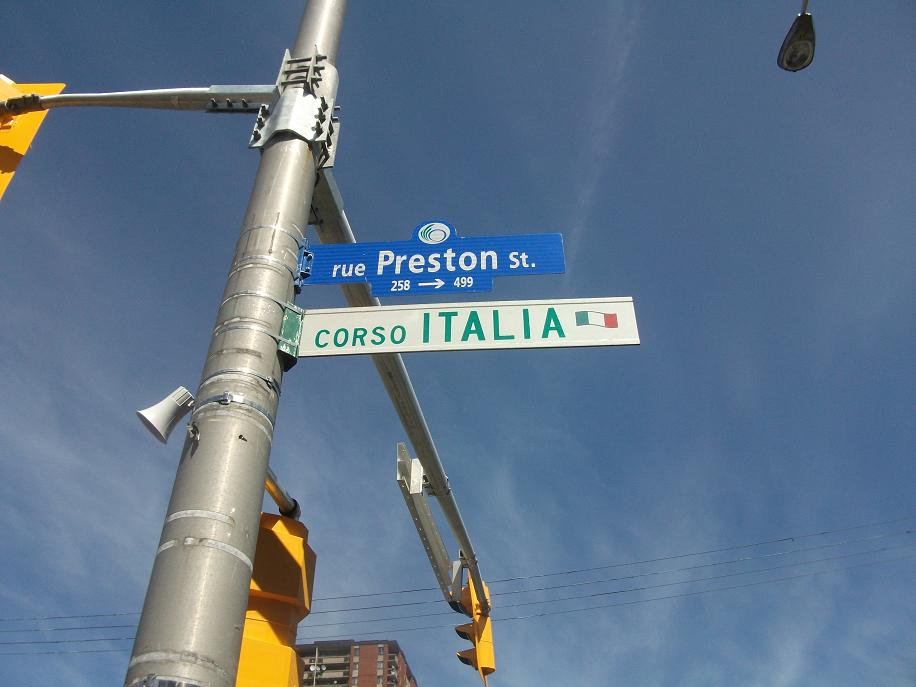 Photo